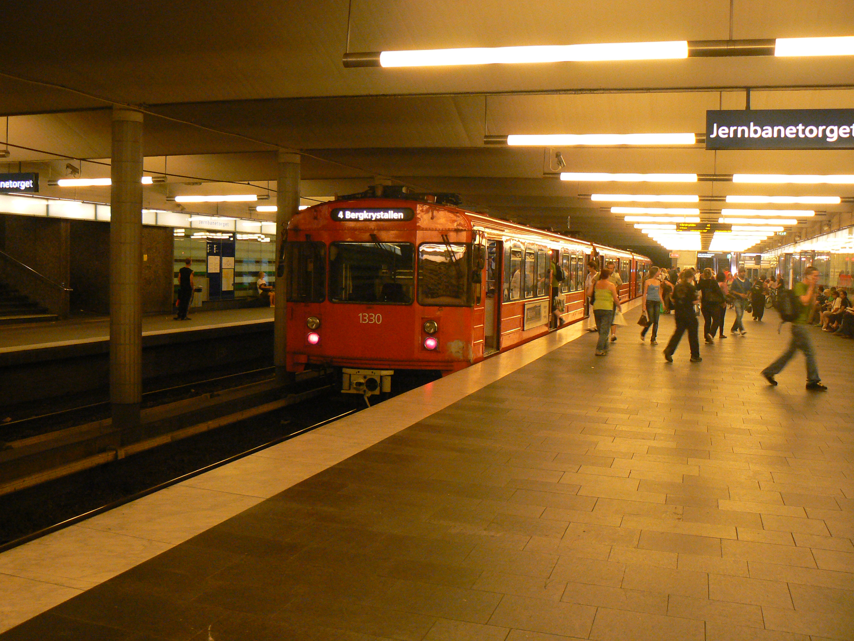 T1300-train at Jernbanetorget subway station in Oslo, Norway.